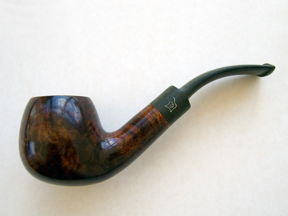 Pipe